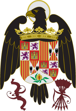 CoA of the Catholic Monarchs, Isabella of Castile and Ferdinand of Aragon, Spain (from 1492)